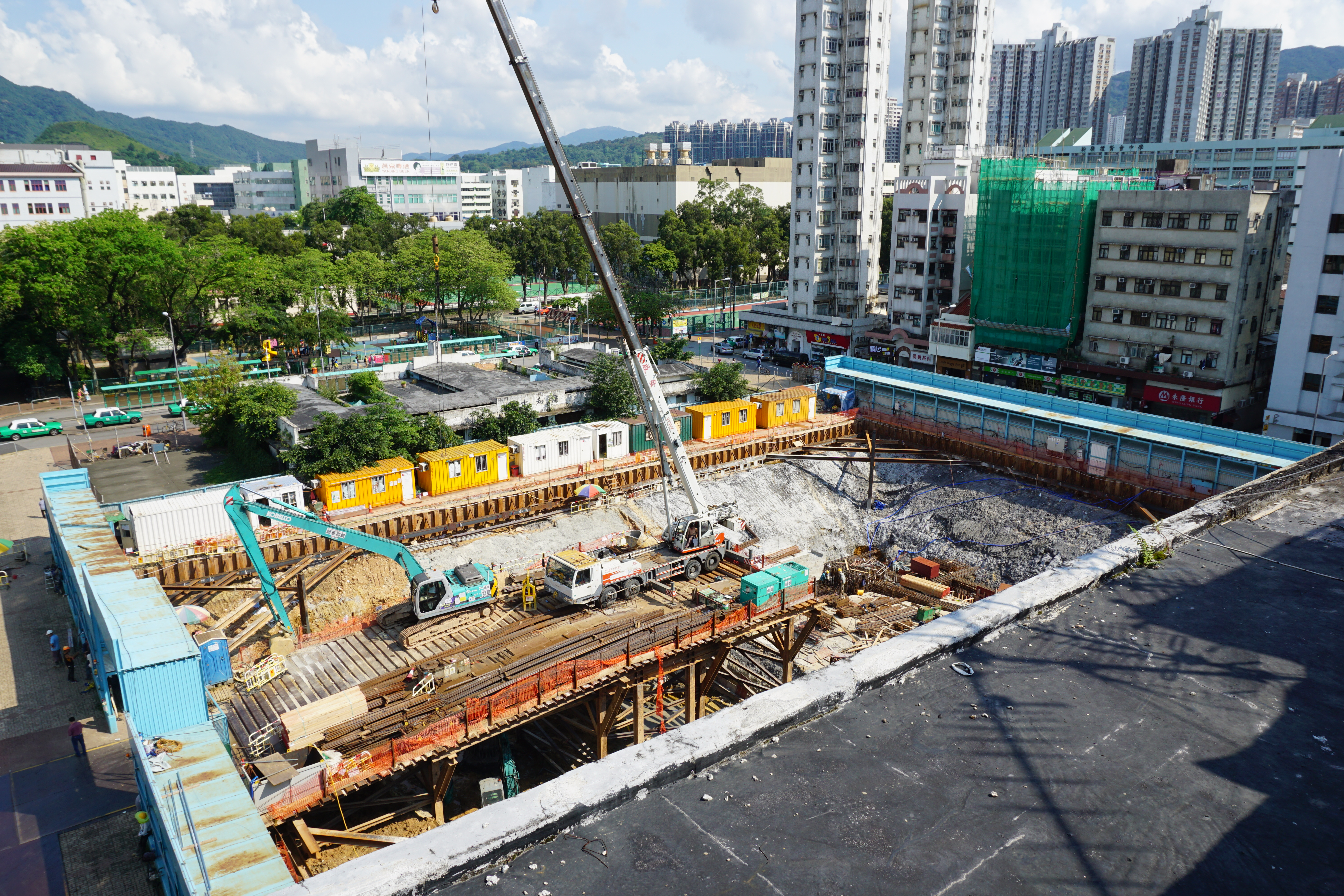 Commune Modern in Luen Wo Hui, Hong Kong.